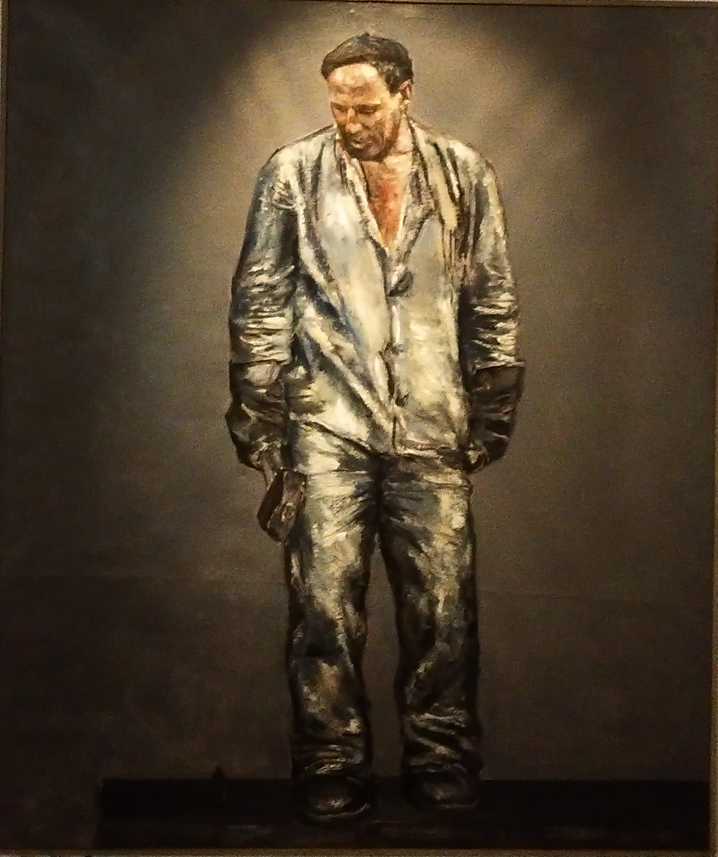 Construction worker, a painting by Petar Dochev, 1976